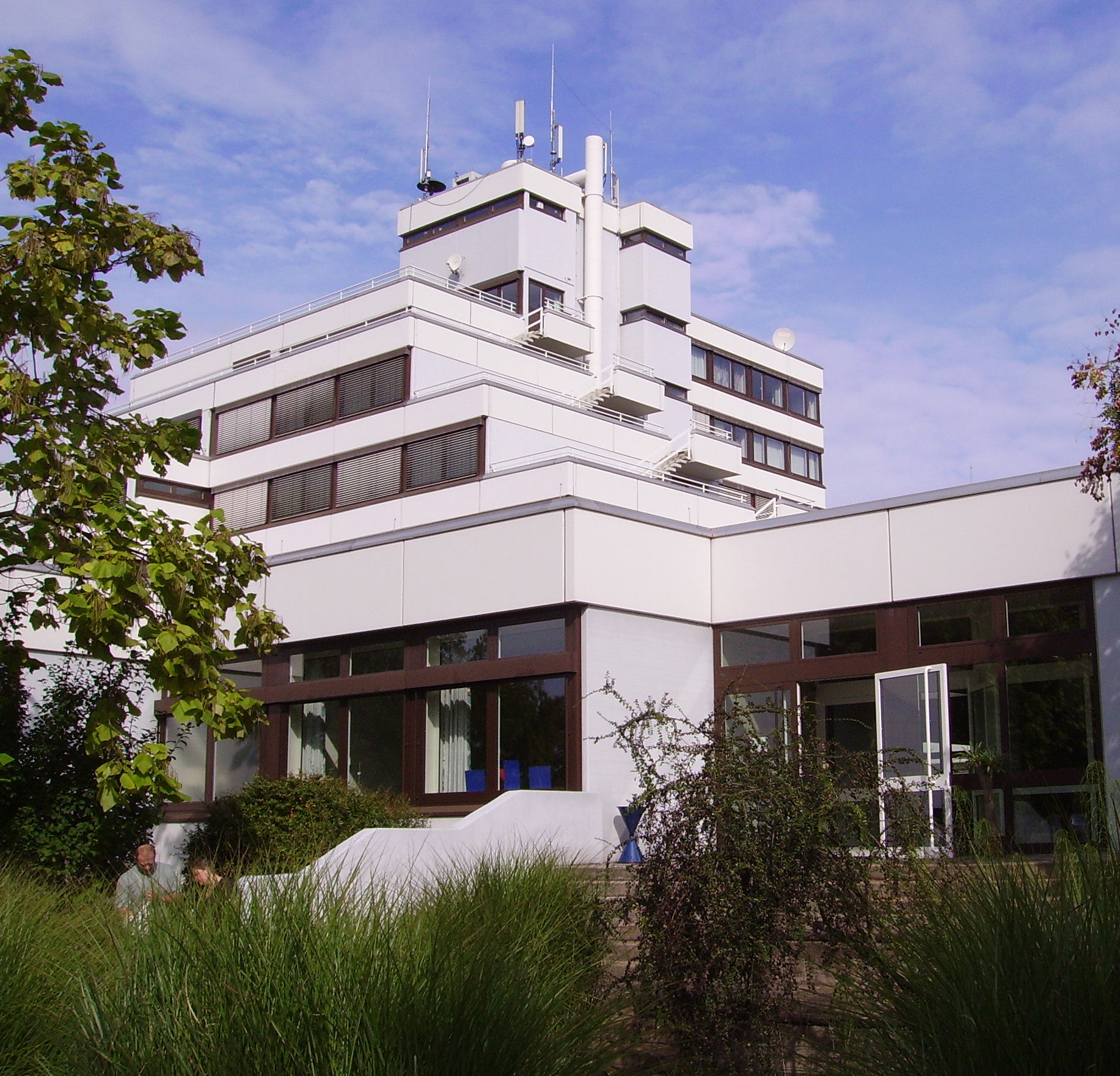 building in Ludwigshafen, Germany